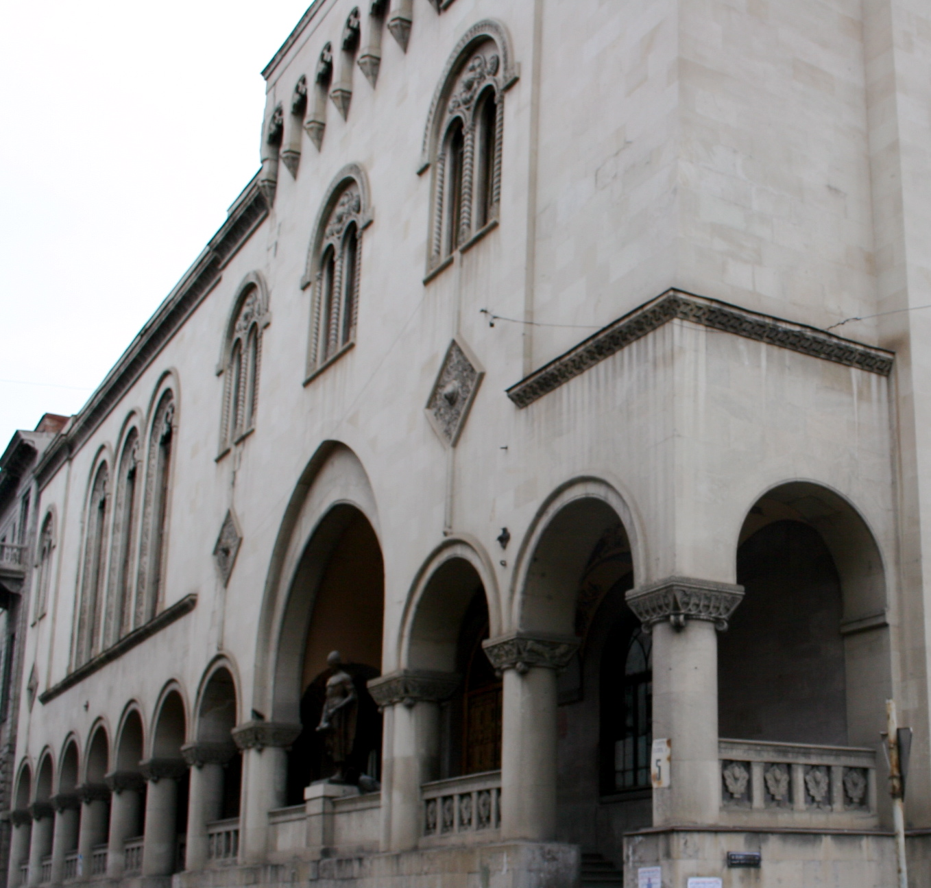 National Parliamentary Library of Georgia, Building #1 located in 3 Gudiashvili St., Tbilisi. It was built as the Bank of Nobility in 1913-16 by architect Anatoly Kalgin and artist Henrik Hrinewsky.